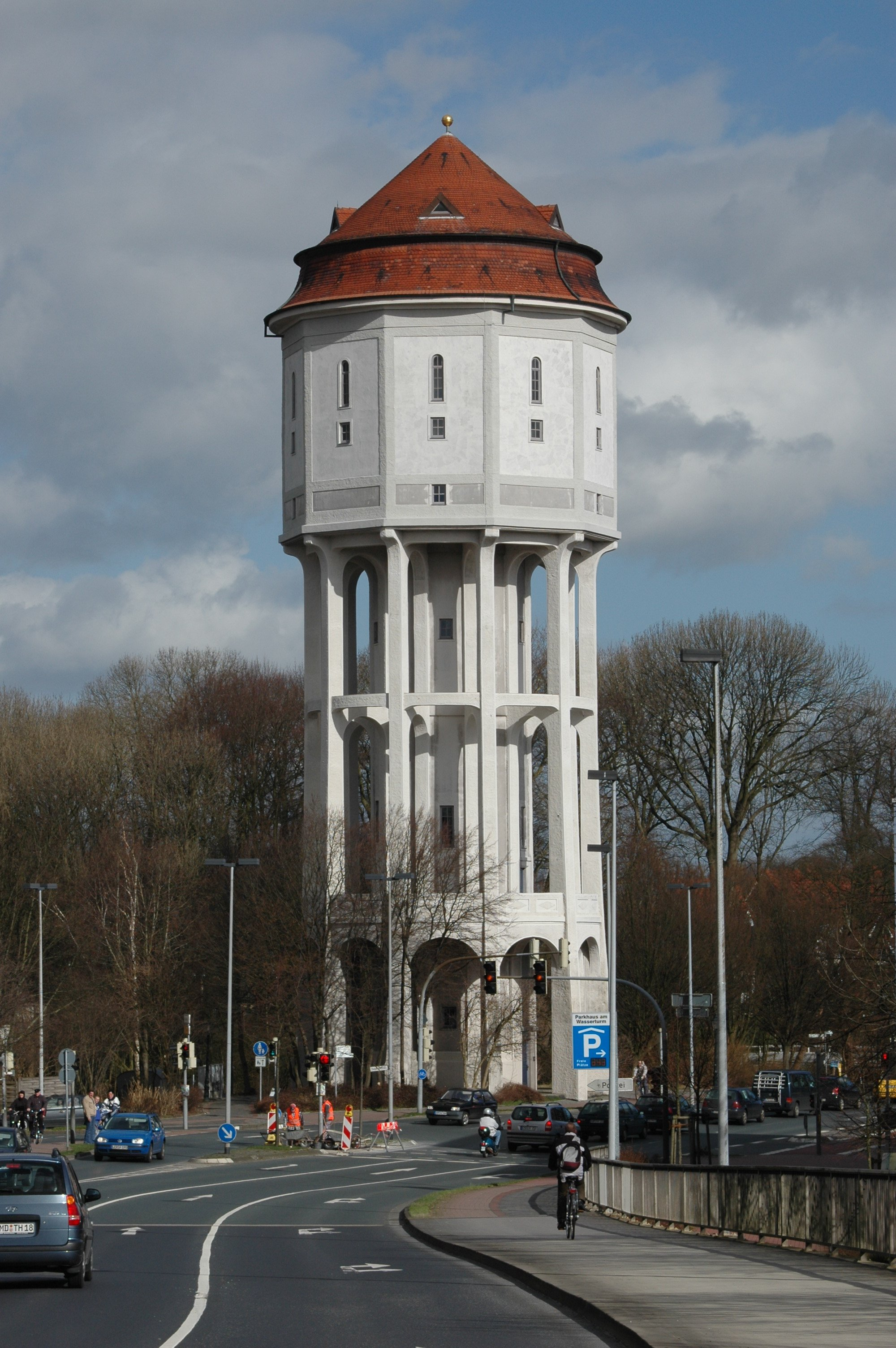 Water Tower in Emden, Lower Saxony, still delivering fresh Water for the inhabitants of Emden City. Own Work. Picture taken: 1st of March, 2007, by Rolf Drewes